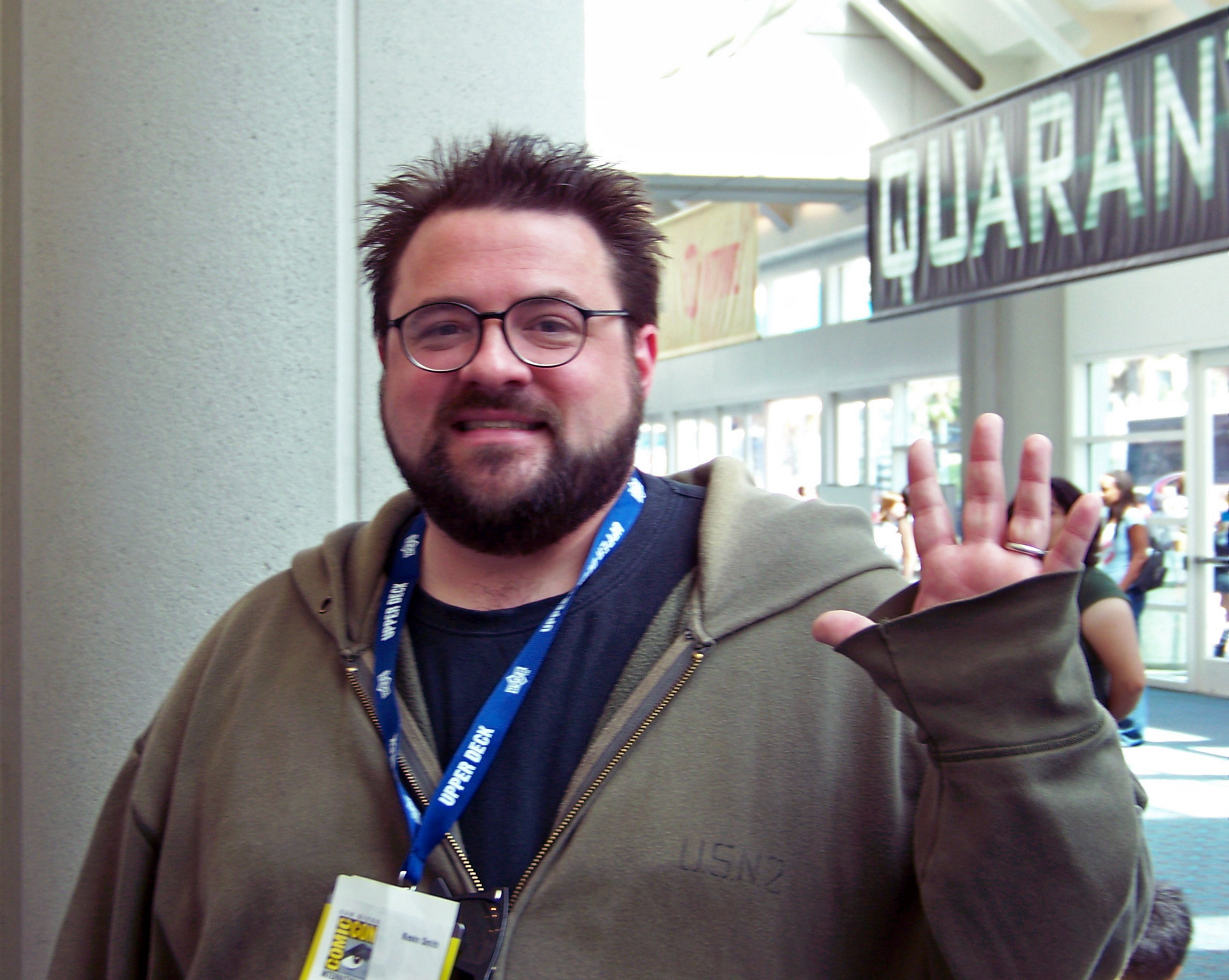 Director/Actor Kevin Smith at the 2008 Comic-Con convention in San Diego, California.